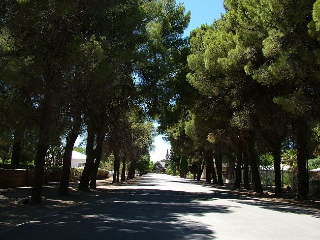 Loxton, Northern Cape, South Africa